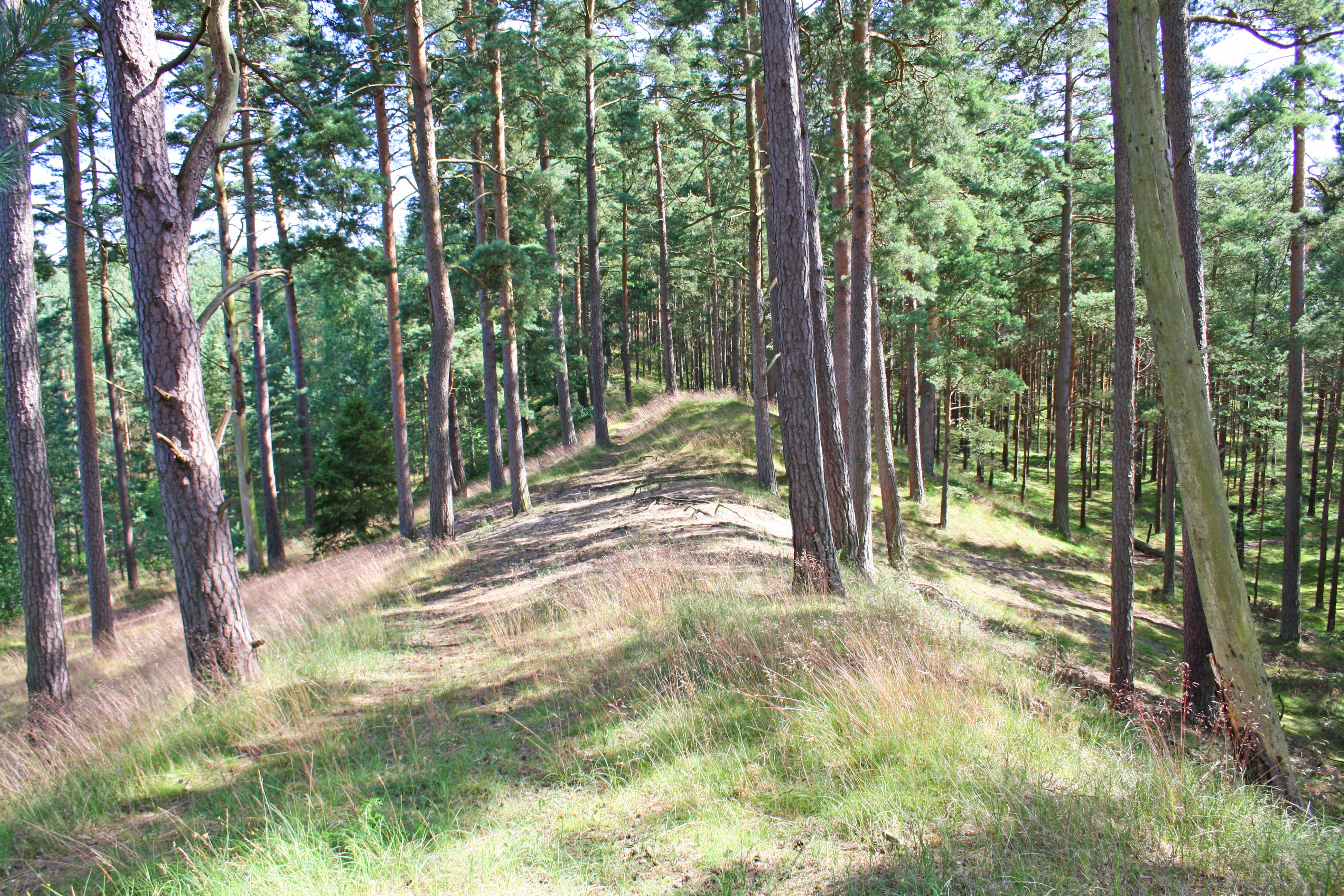 The Pestbacken nature reserve, South of Grödby, Bromölla Municipality, Scania, Sweden.